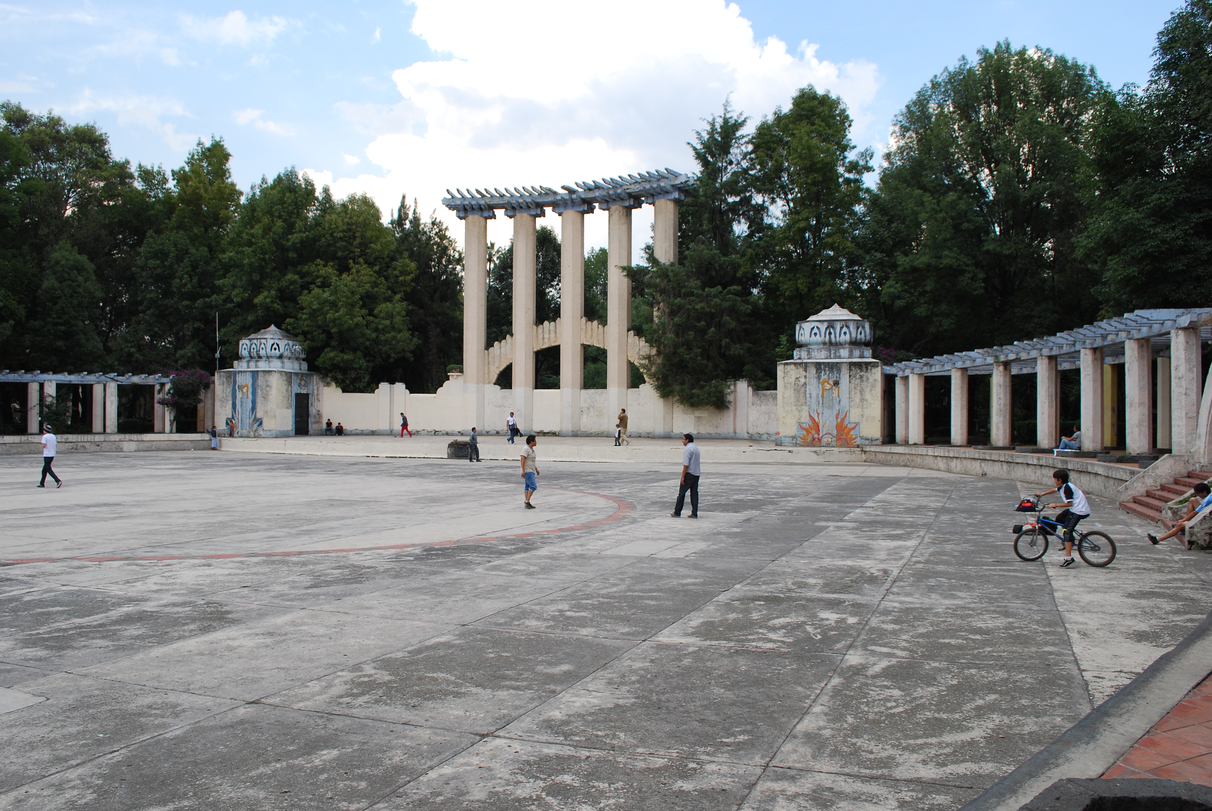 View of the Lindbergh Theater in Parque Mexico in Mexico City